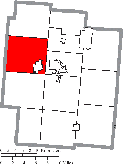 Map of the municipal and township boundaries of Jackson County, Ohio, United States, as of the 2000 census, with the location of Liberty Township highlighted. Township borders are shown only in unincorporated areas in order to differentiate incorporated and unincorporated areas more clearly.